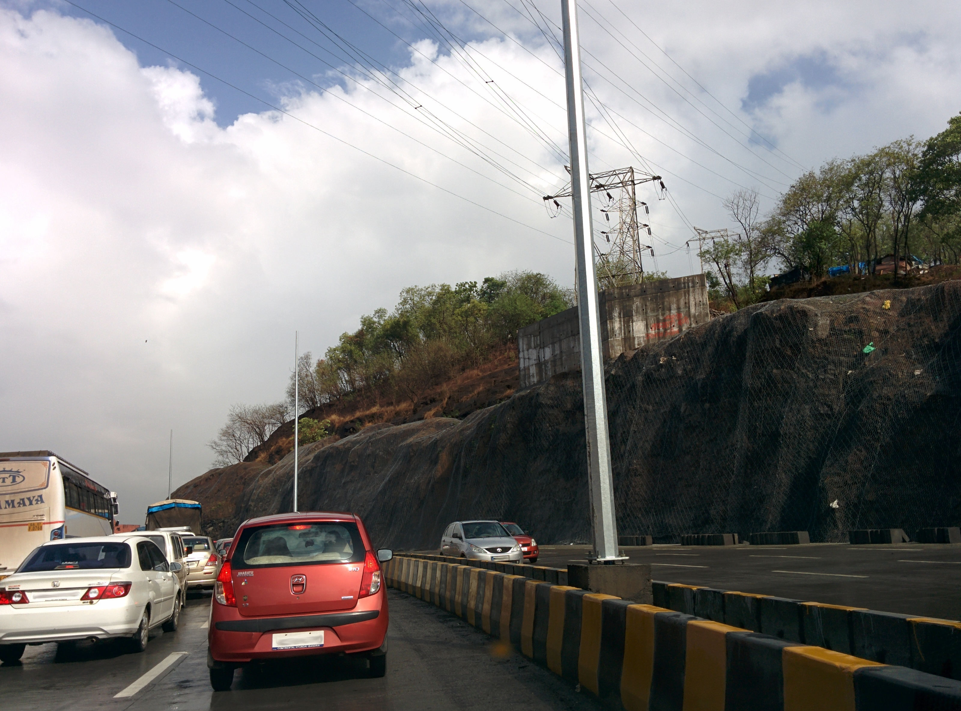 Rockfall protection on Sion Panvel highway in greater Mumbai area